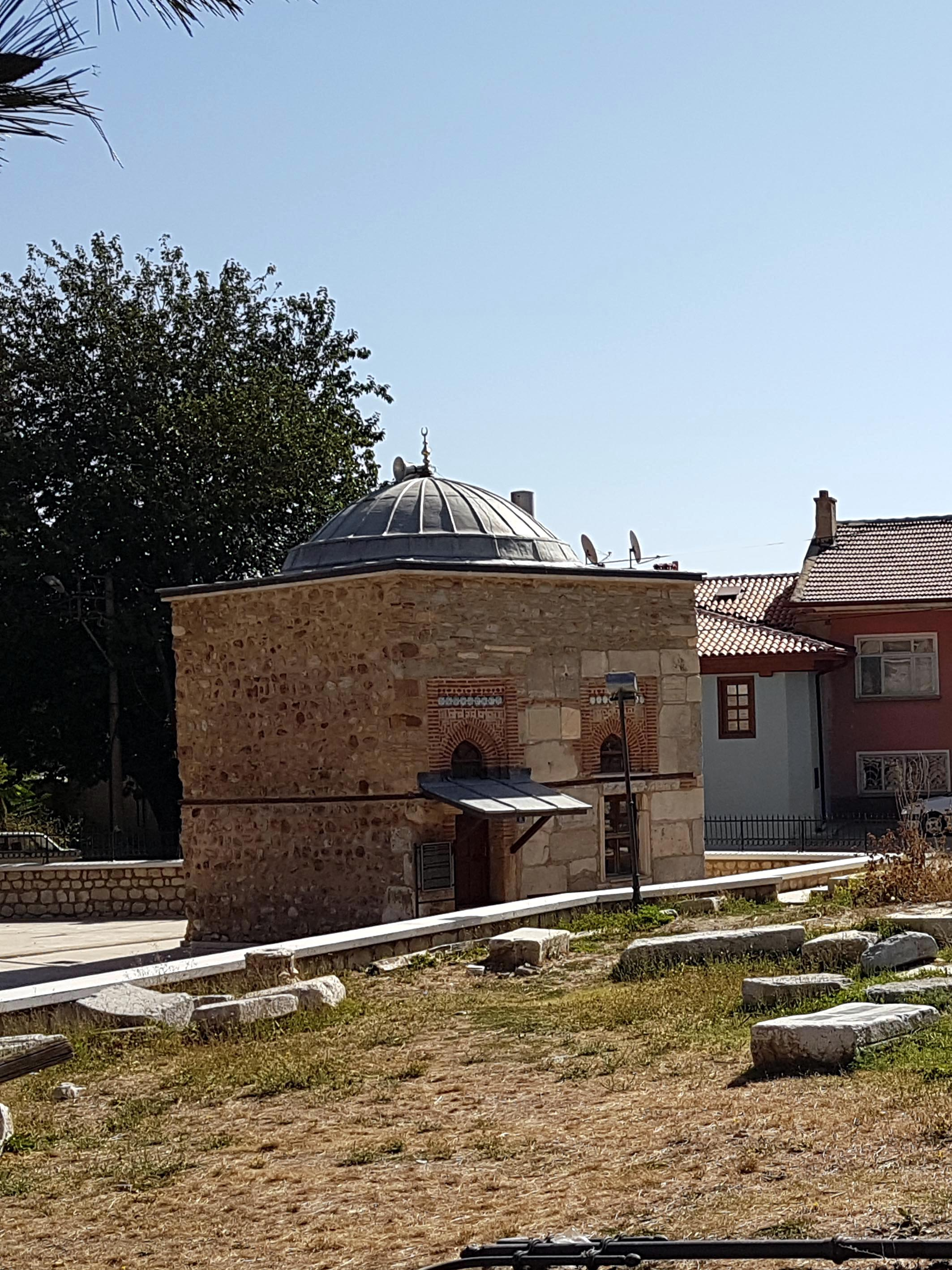 13th century Ferruhşah Mosque, Akşehir, Turkey